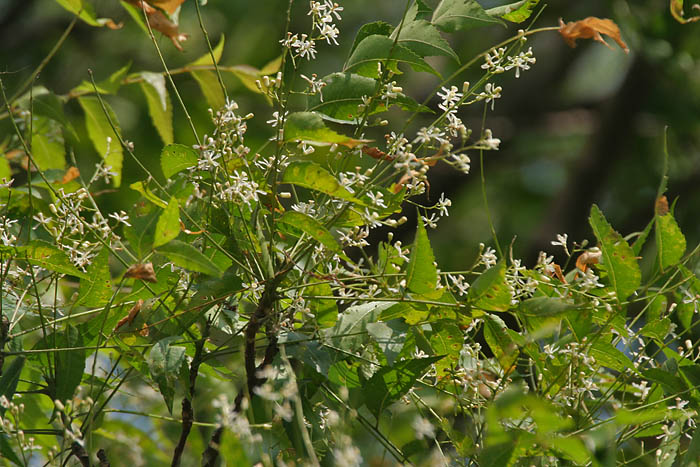 Neem Azadirachta indica in Kolkata, West Bengal, India.